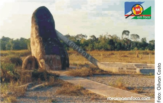 Template:Equator line in the state of Roraima, Brazil.